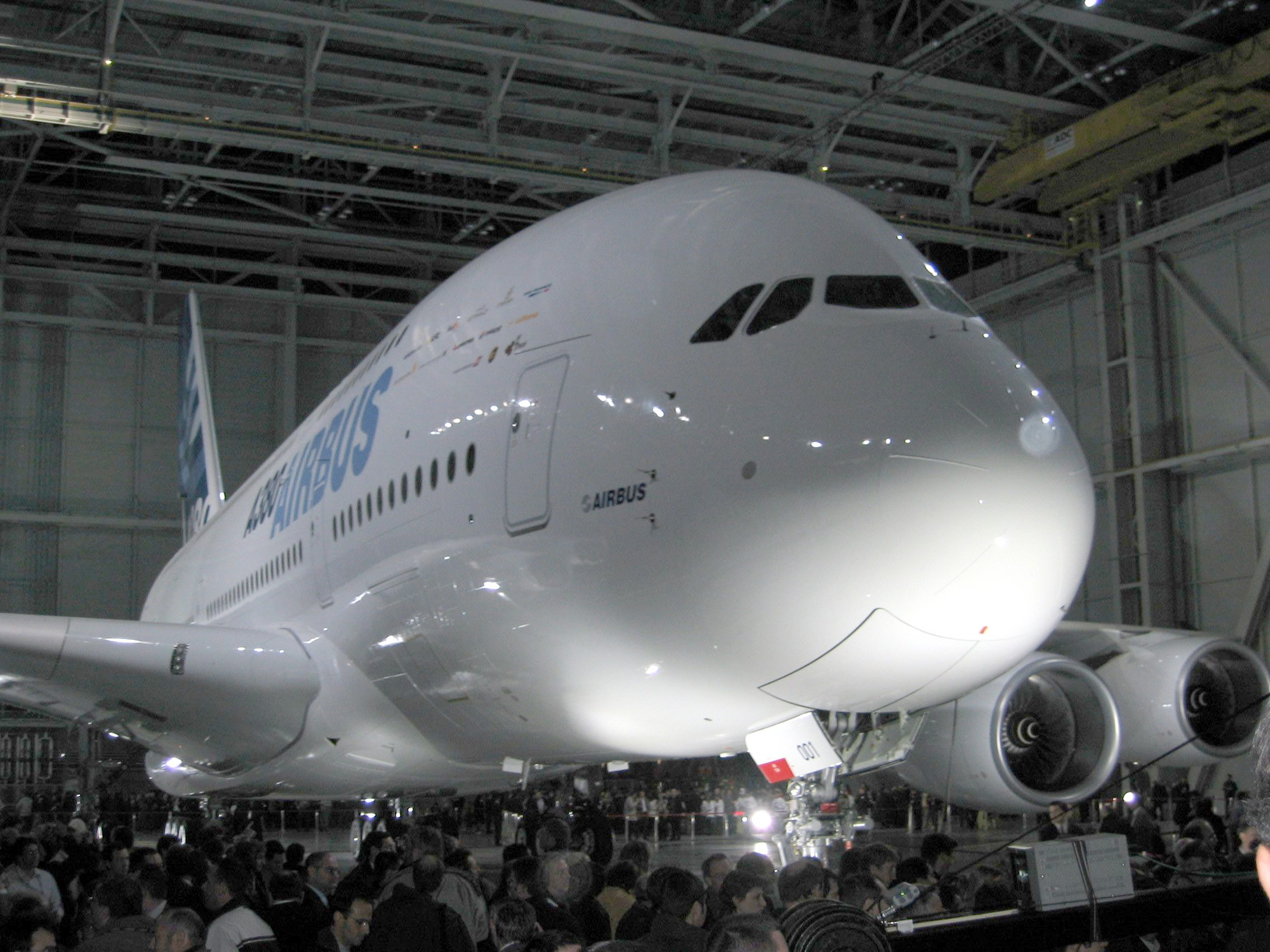 Airbus A380 "revealed", Toulouse January 19, 2005.